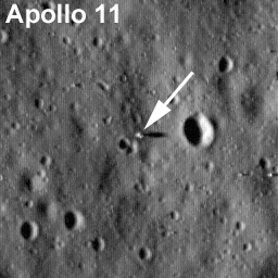 Apollo 11 landing site viewed by the Lunar Reconnaissance Orbiter